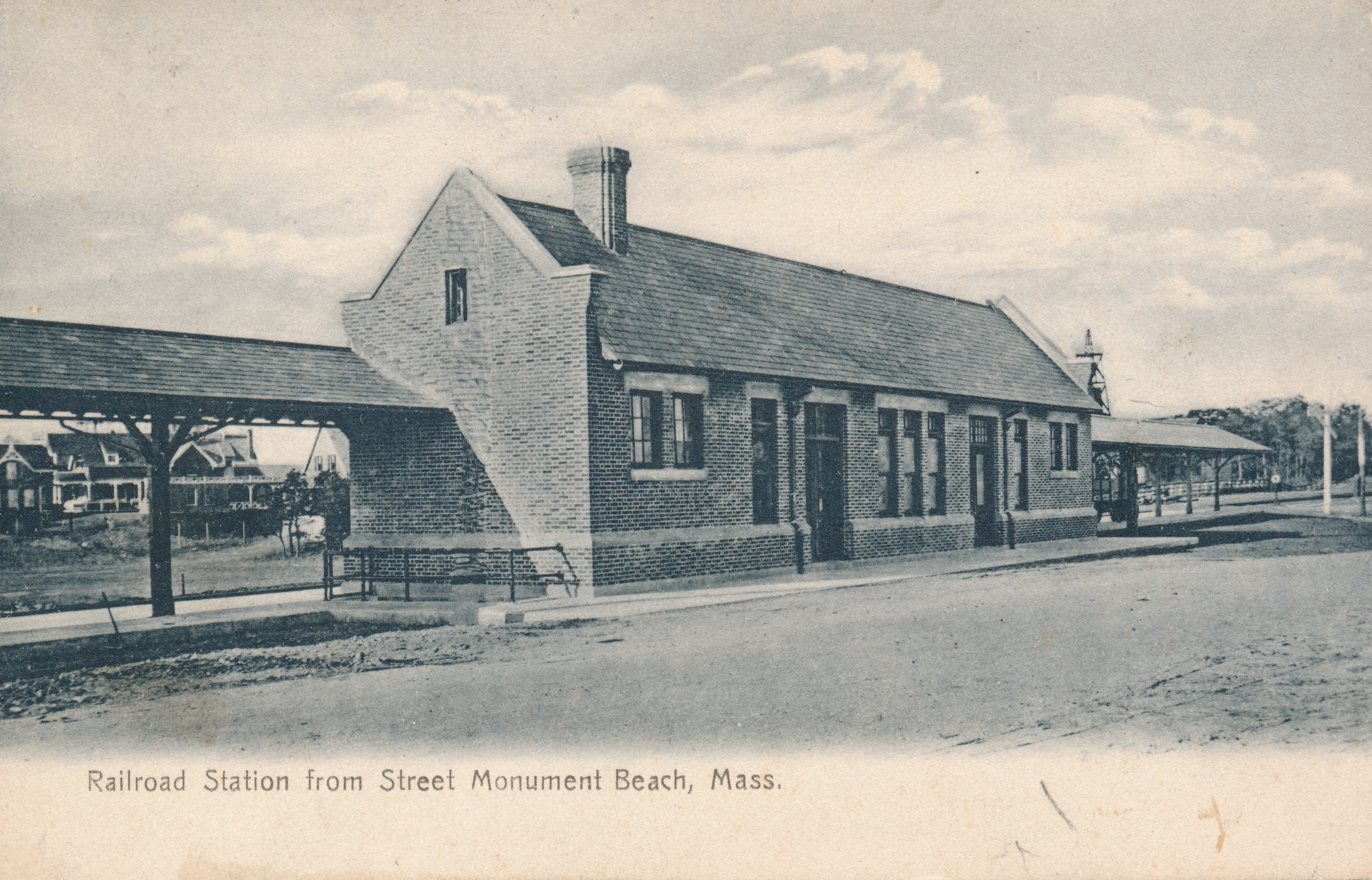 An early postcard with an image of the 3rd Monument Beach, Massachusetts train station on Cape Cod.